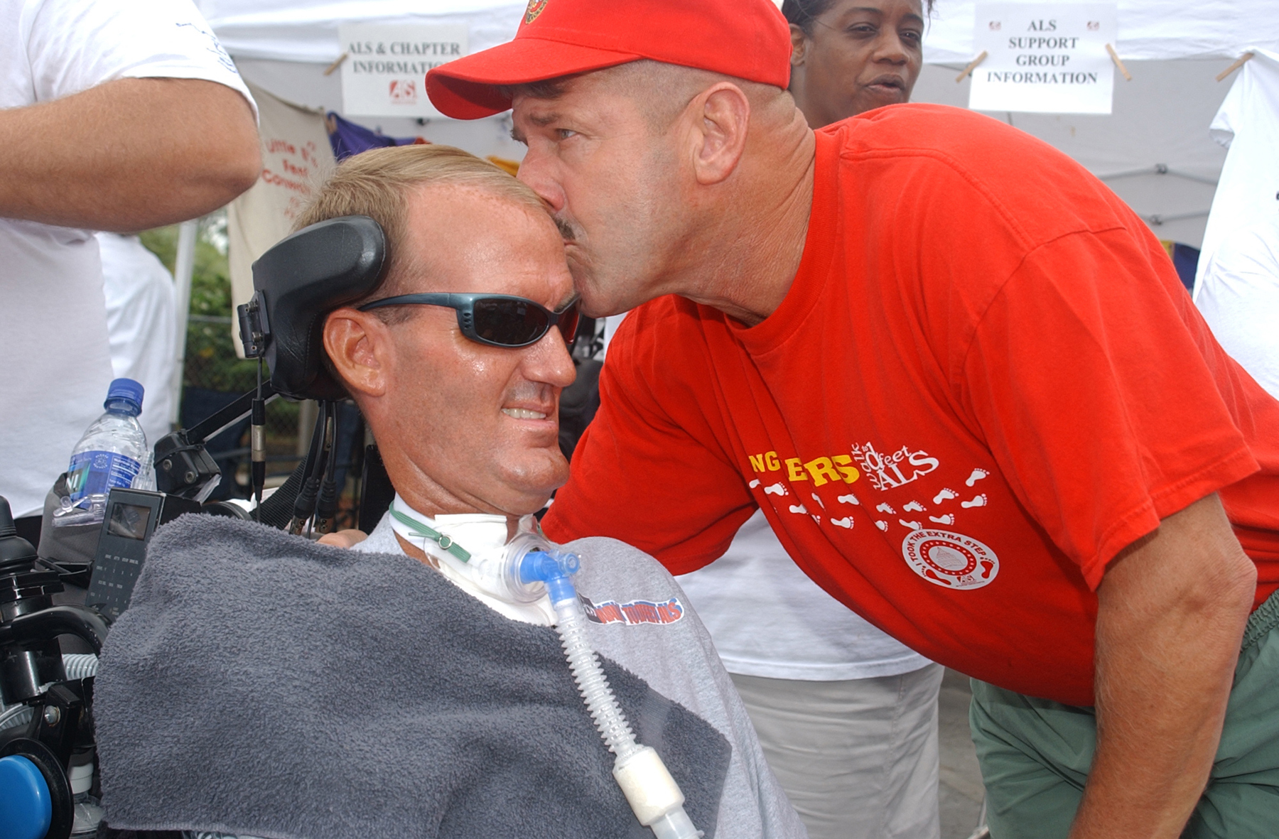 EMERALD ISLE, N.C. - Colonel Richard J. Smith, the assistant chief of staff of Training and Operations for Marine Corps Base, kisses the forehead of retired Maj. Randy L. Herbert before participating in the 2nd Annual Emerald Isle, N.C. - Walk to D'Feet Amyotrophic Lateral Sclerosis Saturday. Smith and Herbert served together in the Gulf War.